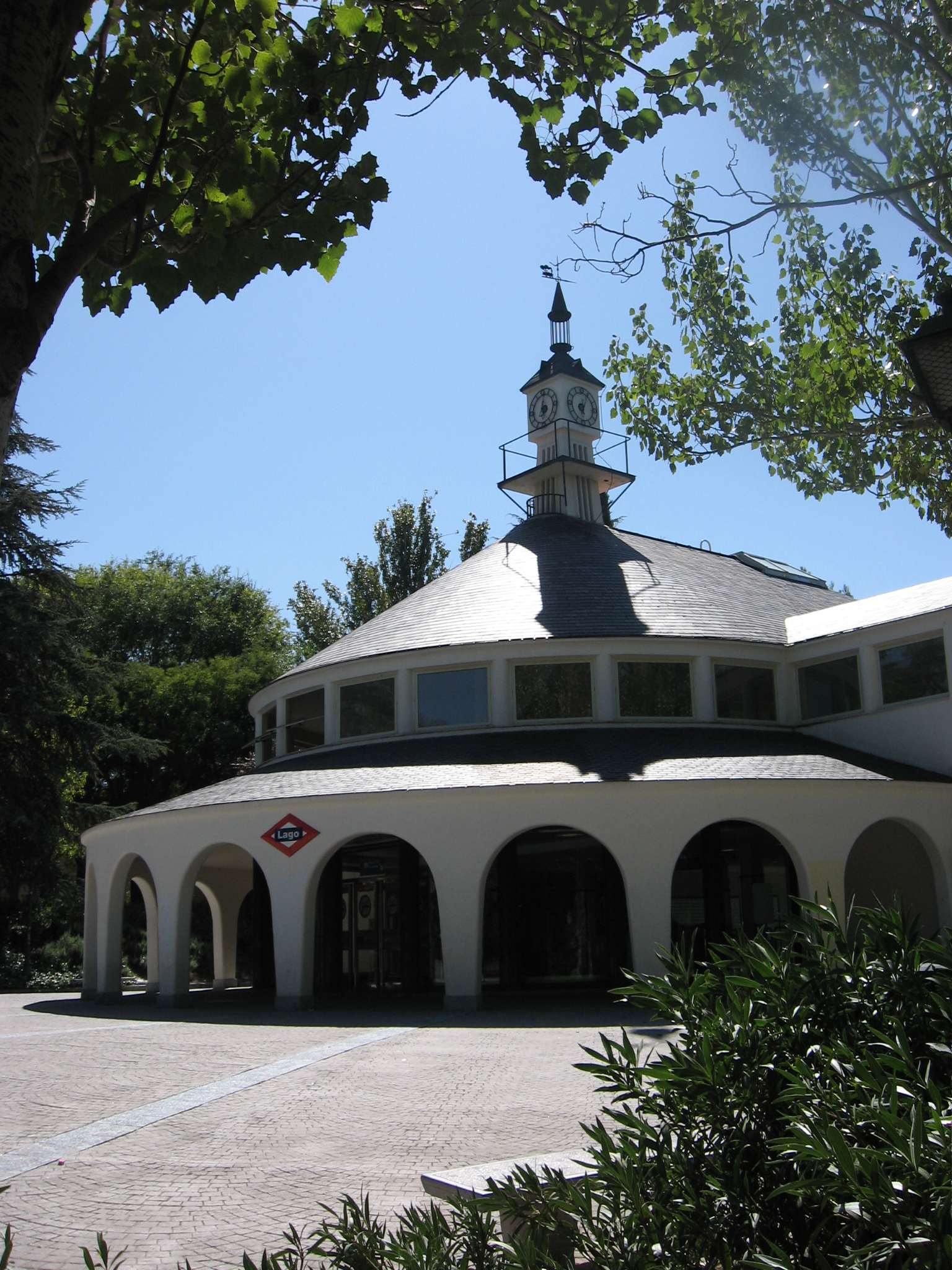 Lago, Casa de Campo